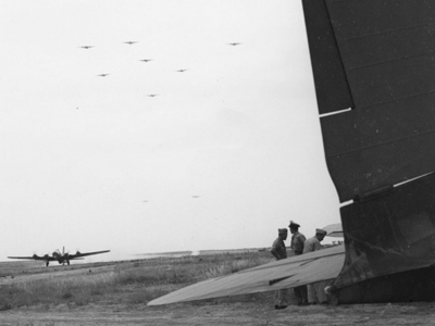 97th and 99th Bomb Group B-17s return to Amendola Airfield, Italy, from the first shuttle mission to Russia. Gen. Ira Eaker’s C-35 awaits him at right.